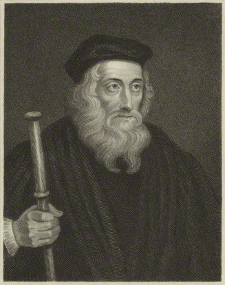 I have a collection all prints and Lithographs, some as old as 200 hundred years, this is a modification of John Wycliffe, who in 1382 translated the vulgate into English, now known as the Wycliffe Bilble.